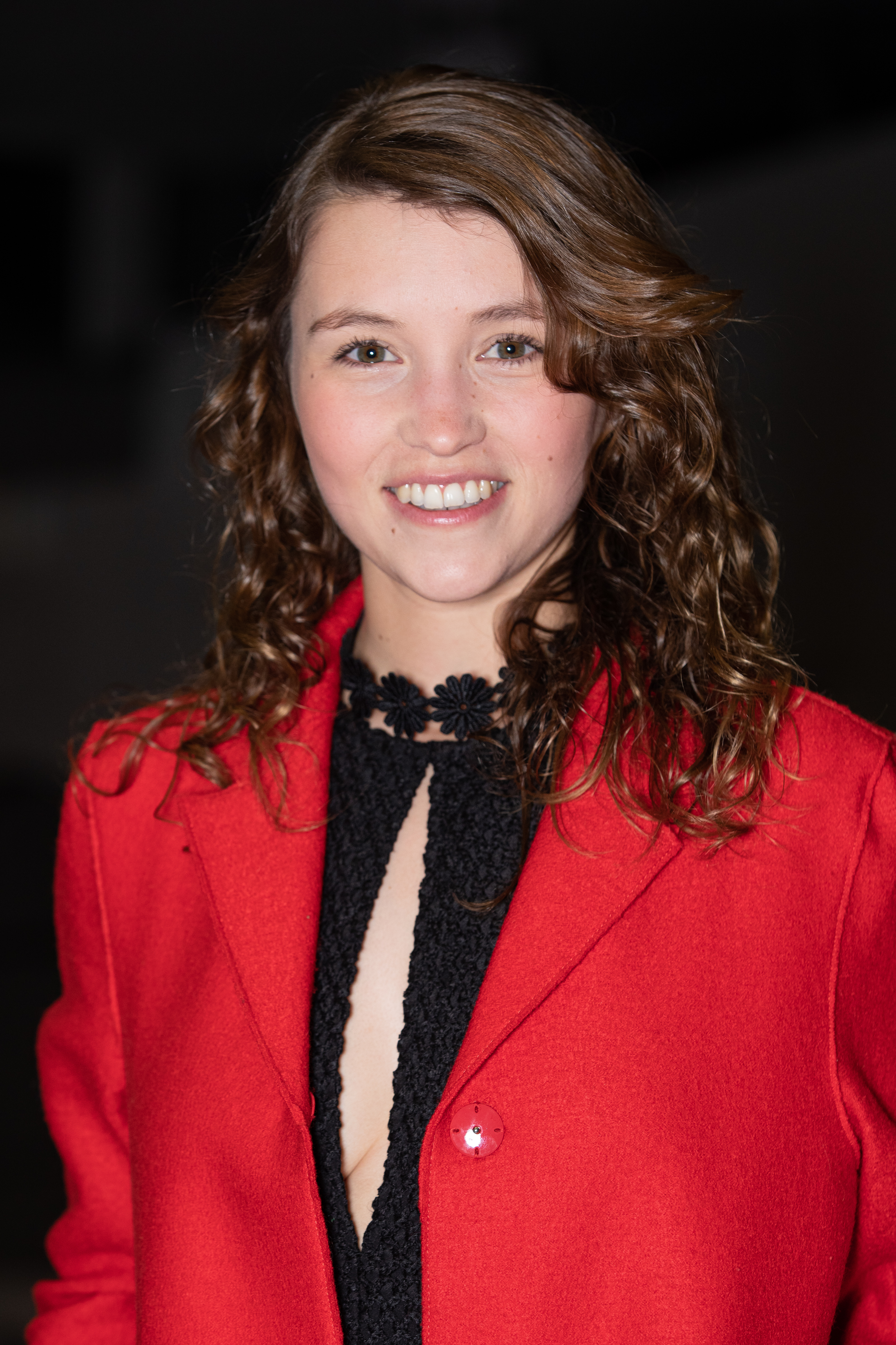 Janina Fautz at the reception of arte during the Berlinale 2020